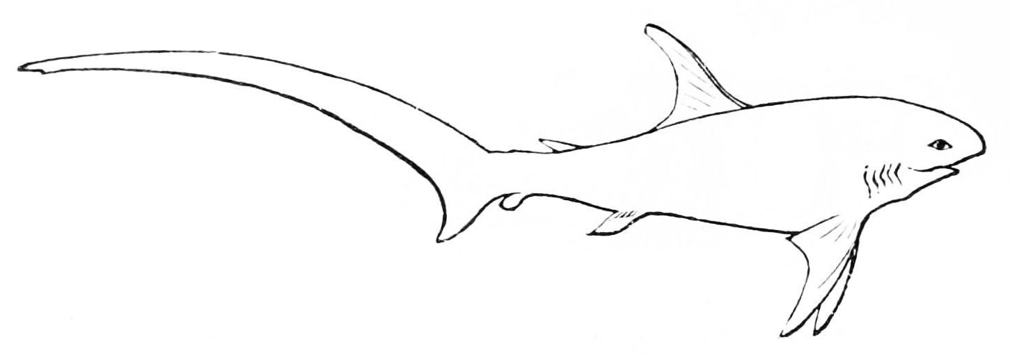 Thresher shark